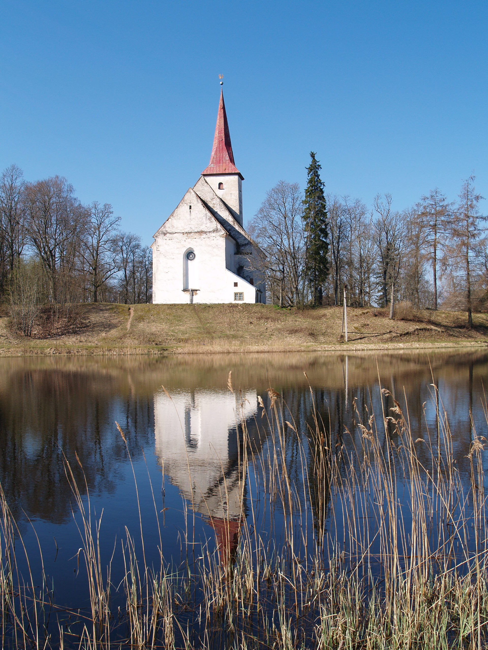 Suure-Jaani Church, Estonia.